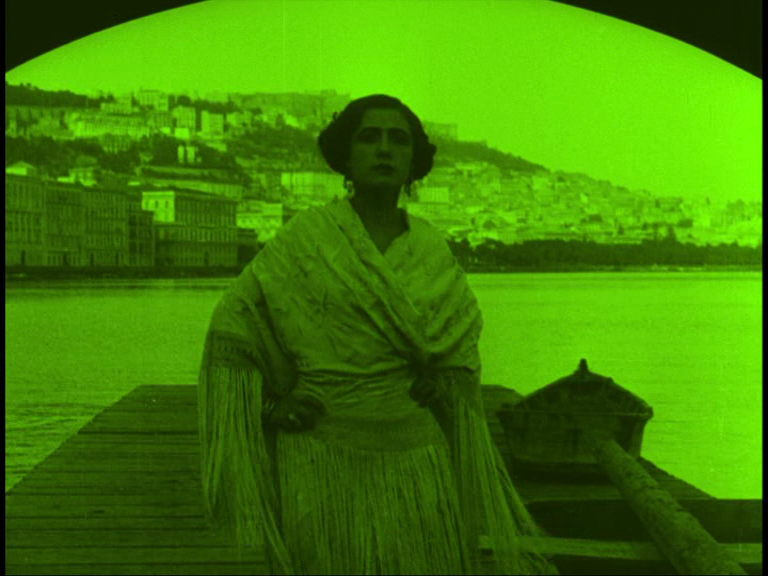 Screenshot from the movie Assunta Spina (1915) with Francesca Bertini